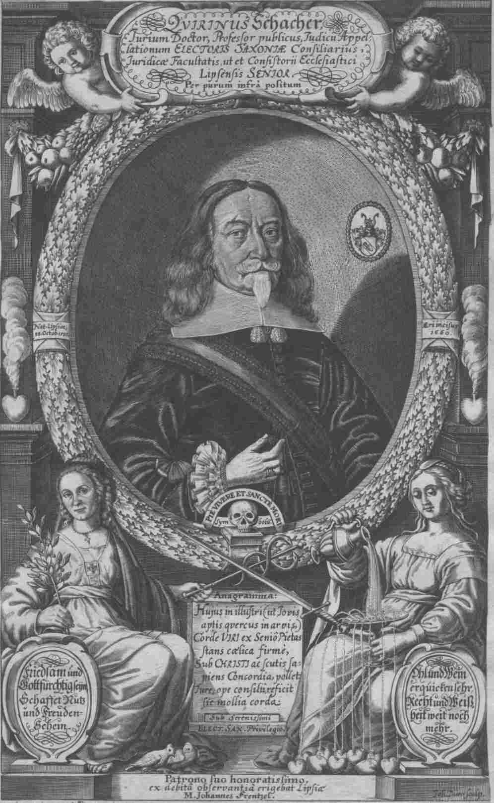 Quirin Schacher (1597–1670), Kupferstich, Bild: 273×166 mm QVIRINUS Schacher, Jurium Doctor, Professor publicus, Judicii Appel- lationum ELECTORIS SAXONIÆ Consiliarius, Juridicæ Facultatis, ut et Consistorii Ecclesiastici Lipsiensis SENIOR. Per purum infra positum Nat[us] Lipsiæ 28 Octob. 1597. Æri incisus 1660 PIE VIVERE ET SANCTE MORI [Fromm leben und heiligmäßig sterben] Friedsam und Gottfürchtig seyn Schaffet Nutz und Freuden- Schein. Anagramma: Hujus in illustri (ut Jovis aptis qvercus in arvis,) Corde VIRI ex Seniô Pietas stans cælica firmè, Sub CHRISTI ac scutis sa- piens Concordia, pollet: Jure, ope consilii reficit sic mollia corda. Sub Sevenissimi Elect Sax Privilegio Öhl und Wein erquicken sehr, Recht und Weiß- heit weit noch mehr. Patrono suo honoratissimo, ex debitâ observantiâ erigebat Lipsiæ M. Johannes Frentzel.